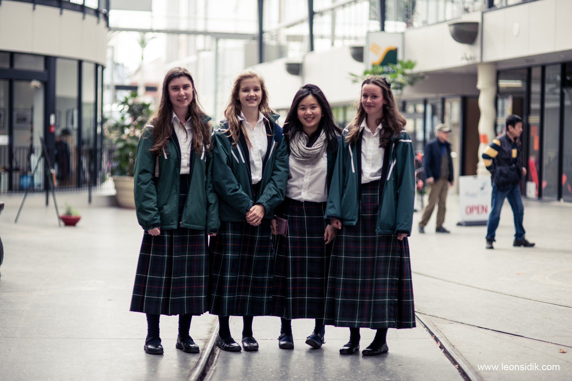 Burnside High School Girls